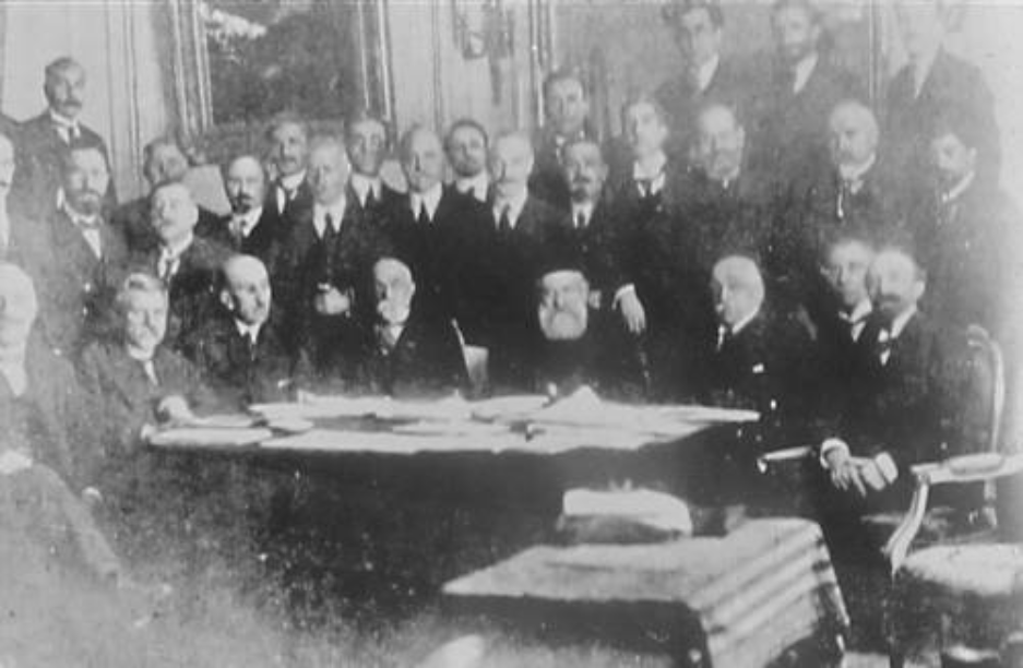 Armenian National Congress Delegation in Paris on February 24-April 22, 1919.